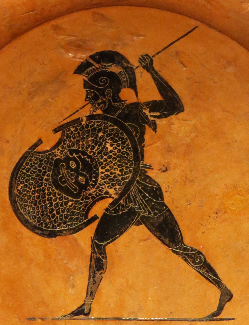 Warrior at a black-figure attic plate attributed to Psiax, ca. 510 B.C., found at Zeus-sanctuary in Olympia